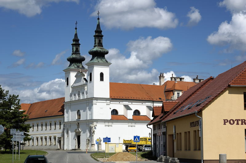 Hospitaller monastery in Valtice